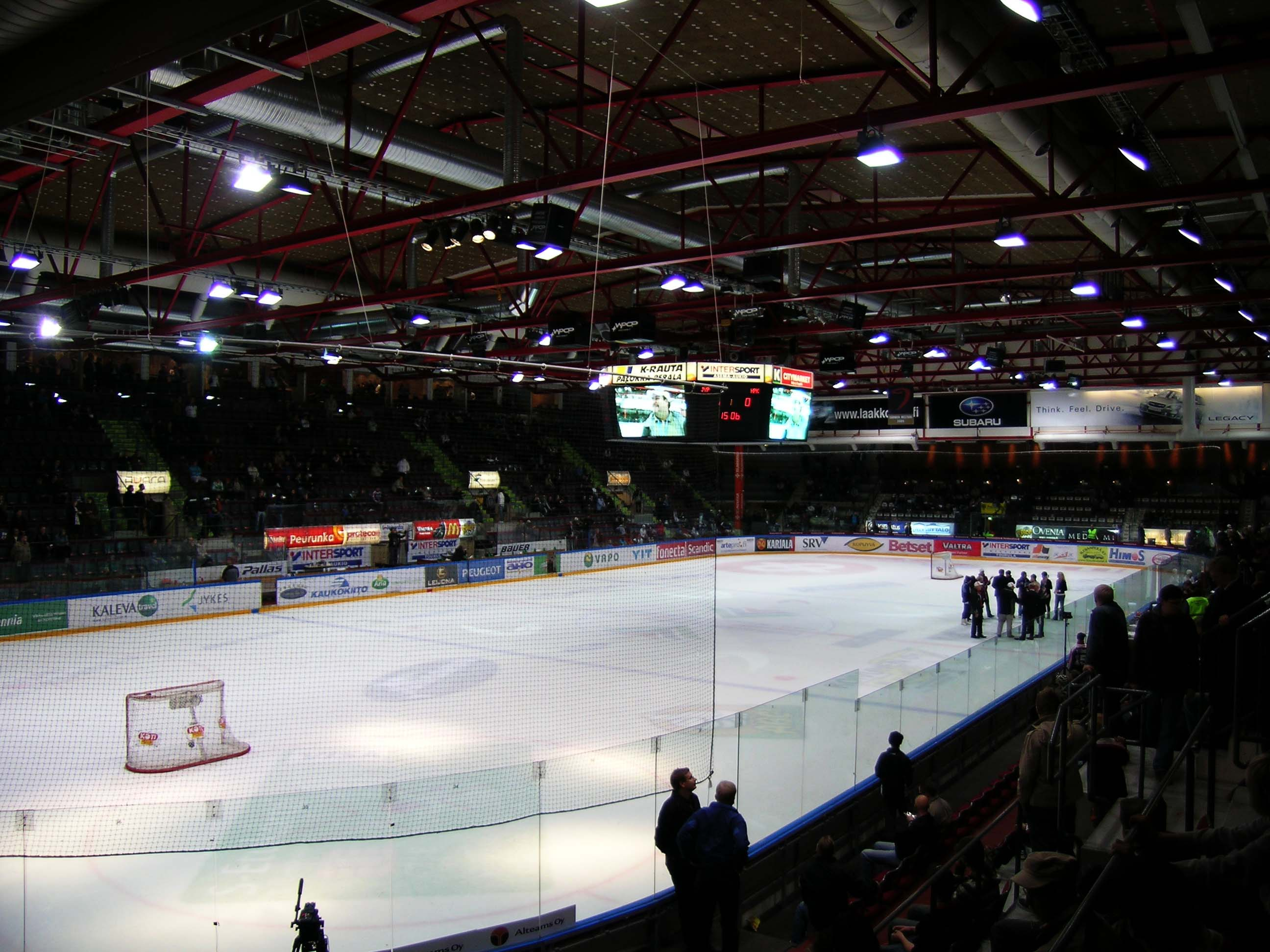 Photo from JYP stadium, Synergia Arena, in Jyväskylä, Finland.